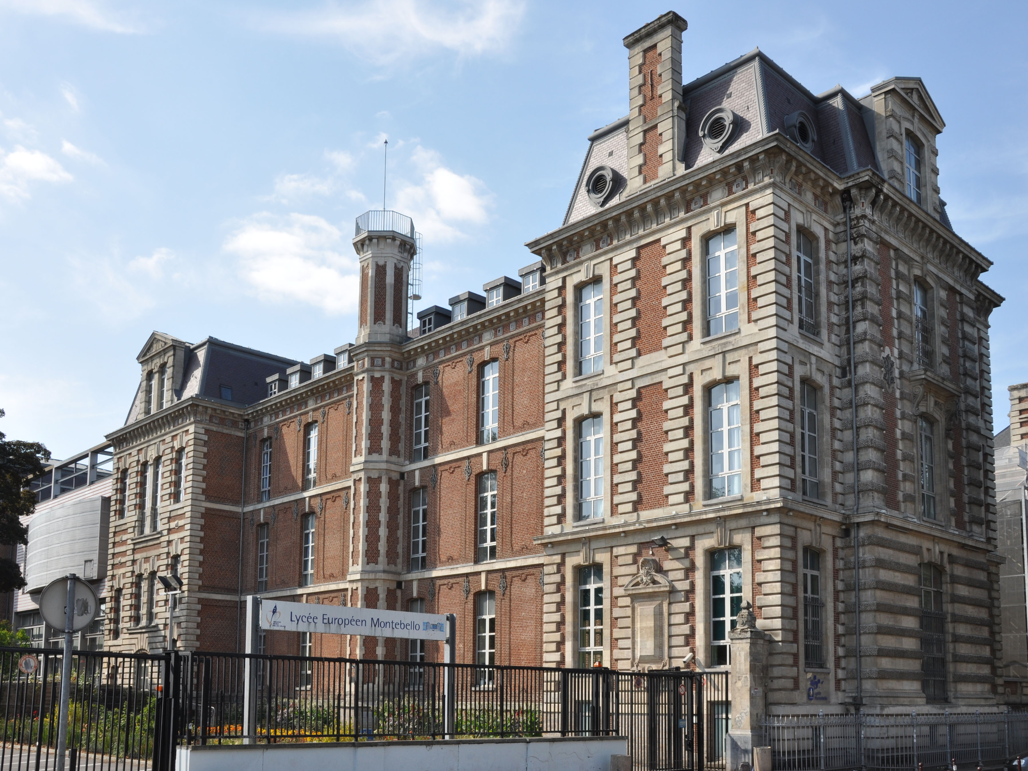 Lycee Montebello